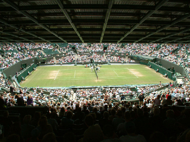 Number One Court, Wimbledon. Number One Court of the All England Lawn Tennis and Croquet Club, taken from the back row. Jennifer Capriati and Nadia Petrova are playing.